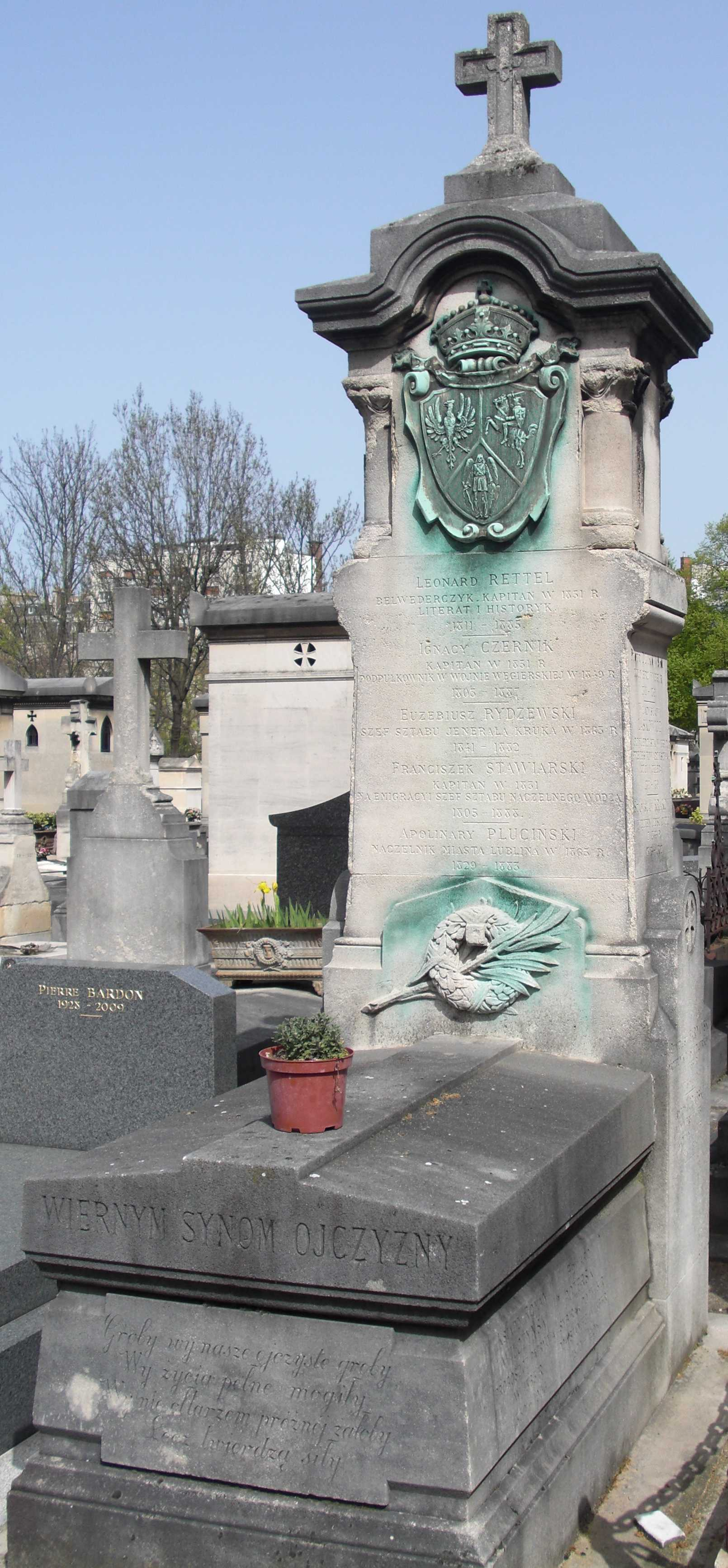 Tomb of Polish insurgents of November and January insurrections, Montparnasse Cementery